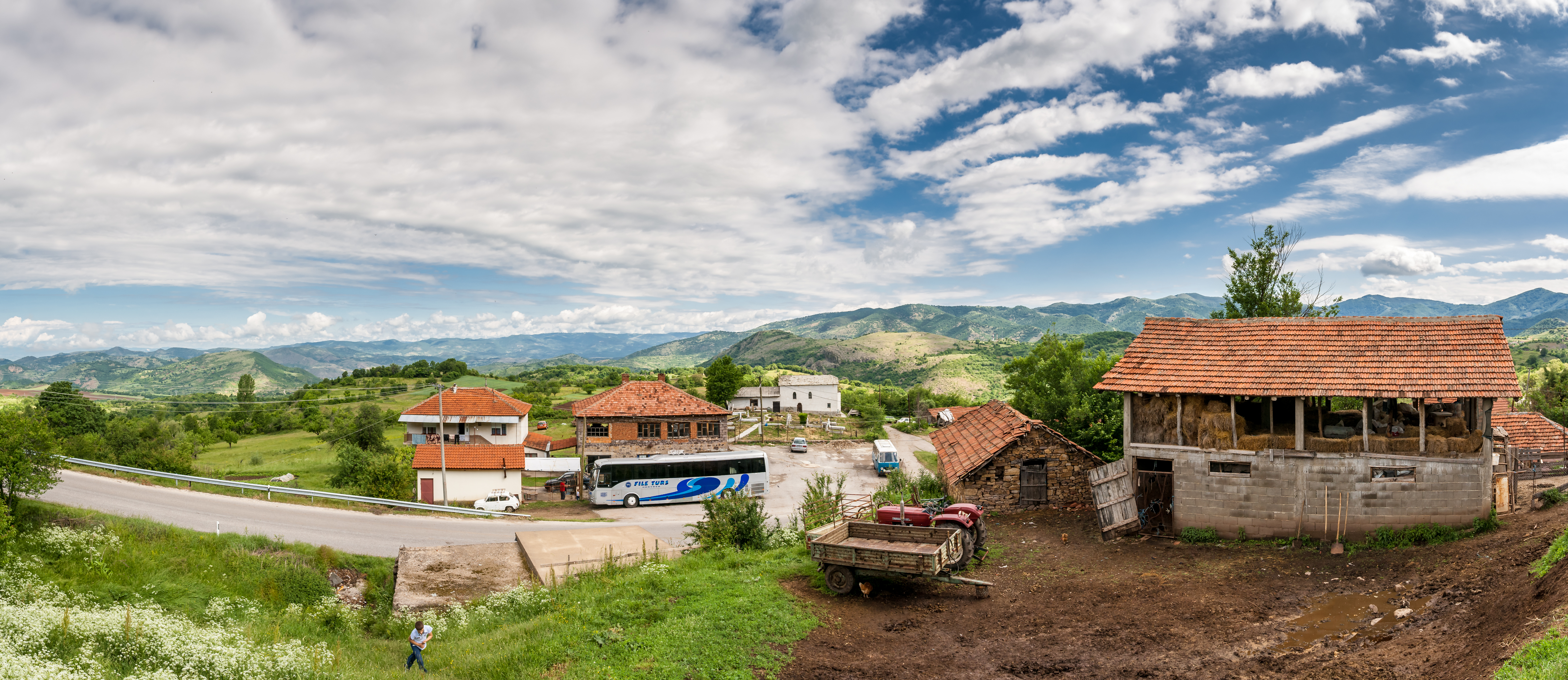 View of the center of the village Prikovci